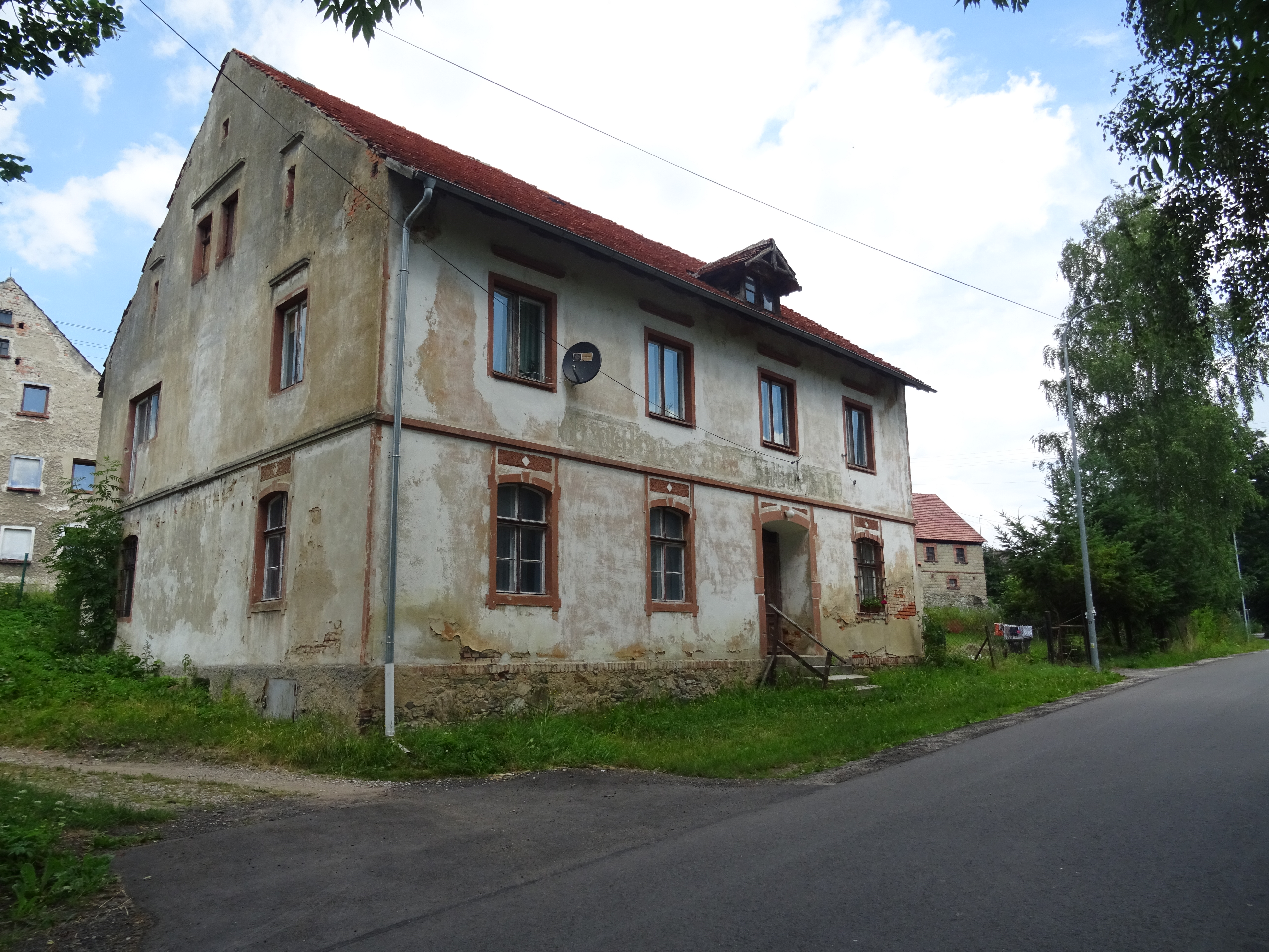 This photograph was created as a part of Wikiexpedition Lower Silesia, a project supported by Wikimedia Poland grant.